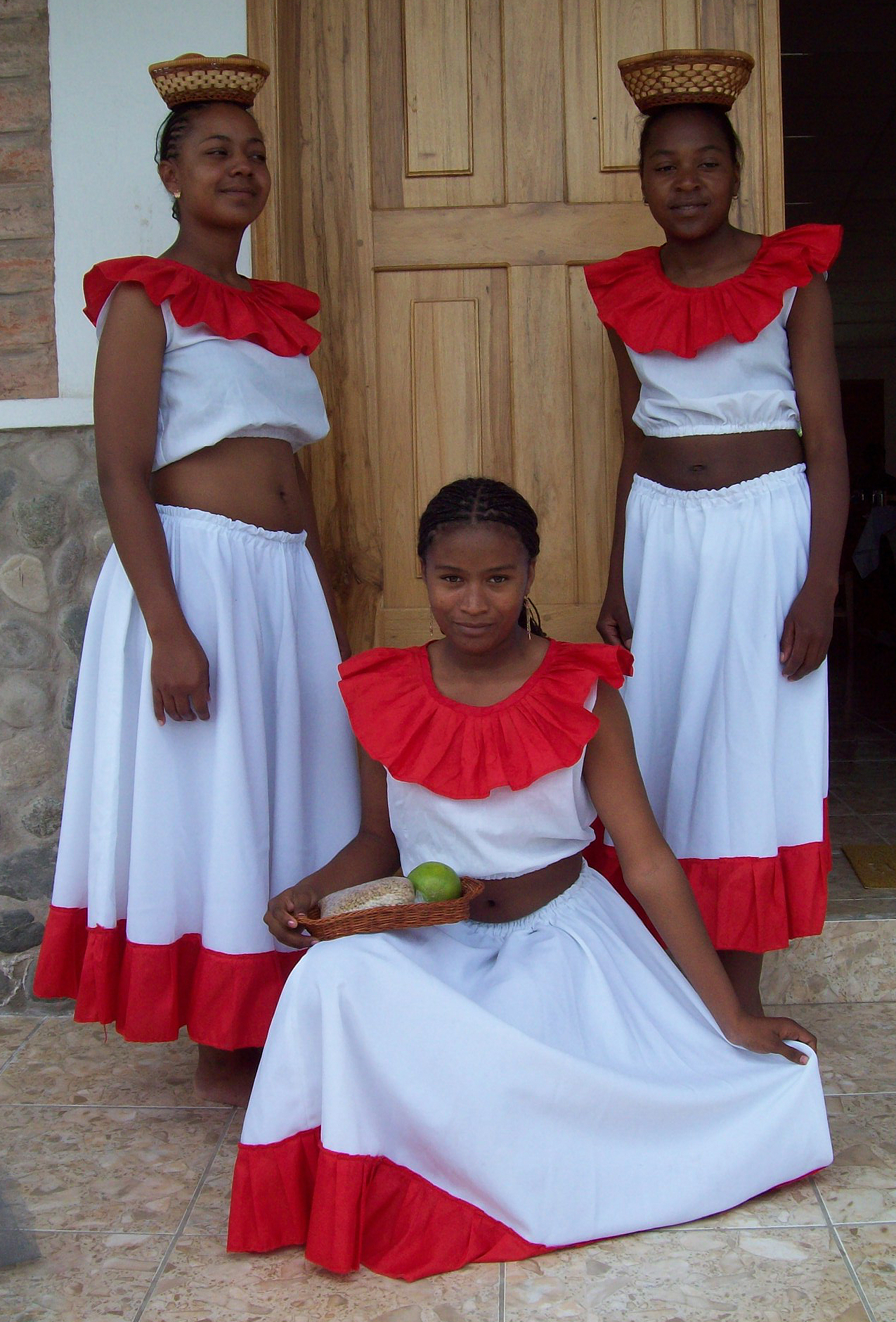 La Estación del Ferrocarril Ibarra - San Lorenzo fue construida en la década de los 50 del siglo pasado y restaurada en el año 2011. La ruta Ibarra-Salinas con una extesión de 30 Km, parte desde la estación de Ibarra y atraviesa zonas agrícolas como Haciendas de cañaverales, una cascada, el puente sobre el río Ambi y siete túneles excavados en la montaña a pico y pala. La Estación de Salinas de Ibarra se encuentra rodeada de dos barrios con casas antiguas, construidos con tapial, carrizo y techo de teja. Allí vive la comunidad afro–ecuatoriana que hace presentaciones con su baile, música, el ritmo característico es la Bomba ésta lleva elnombre del tambor con que se interpreta. Además, cuenta con el Museo Etnográfico de la Sal, los guías muestran a los visitantes cómo era la extracción de sal en los tiempos antiguos. Es una réplica de las minas que existían anteriormente, en donde se procesaba la sal que se encontraba mezclada en la tierra por filtración. This photo has been taken in the country: Ecuador